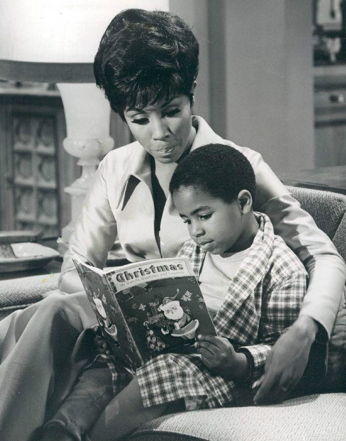 Publicity photo of Diahann Carroll and Marc Coppage from Julia television program.